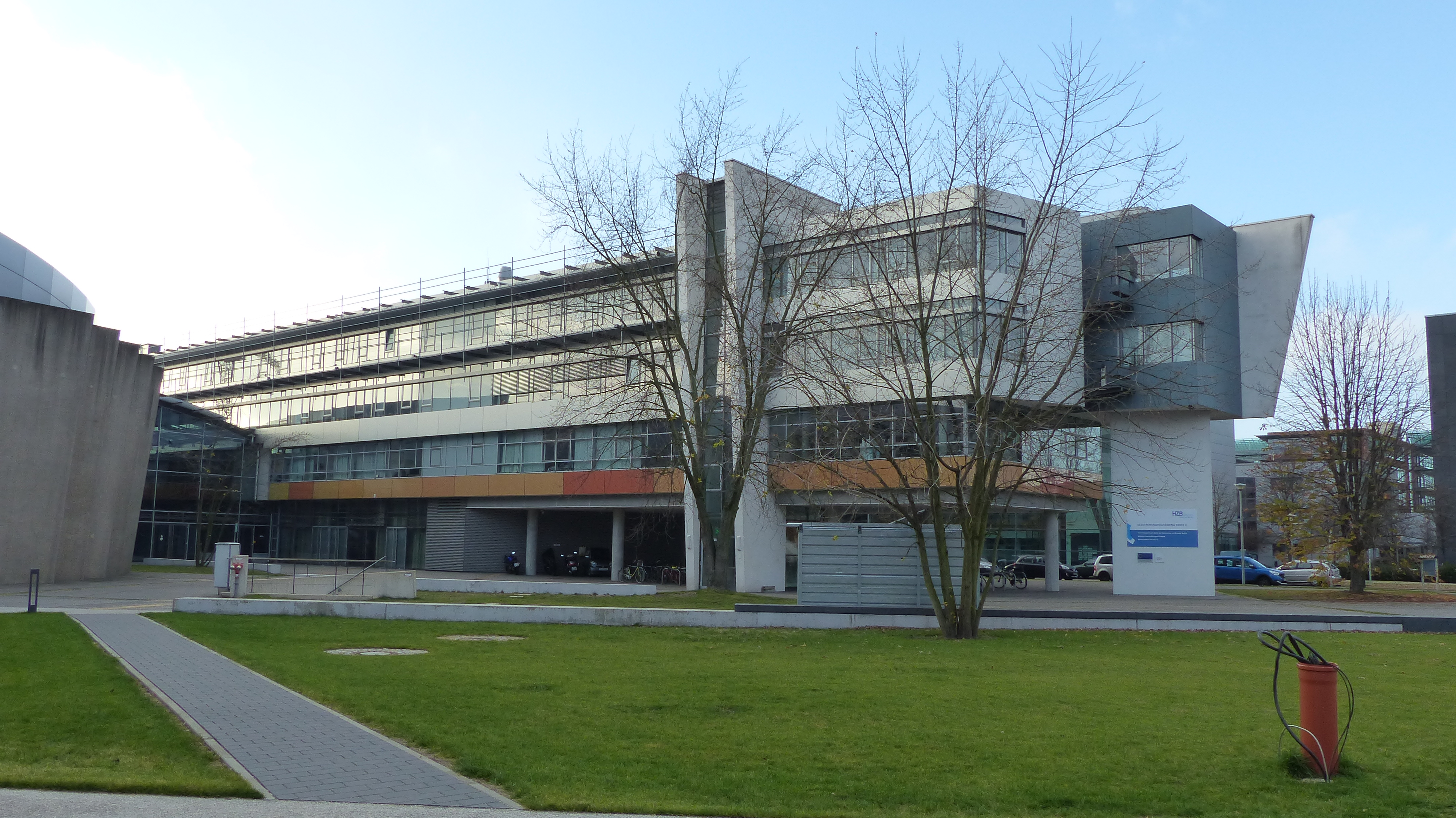 BESSY II, WISTA Sciencepark Berlin-Adlershof